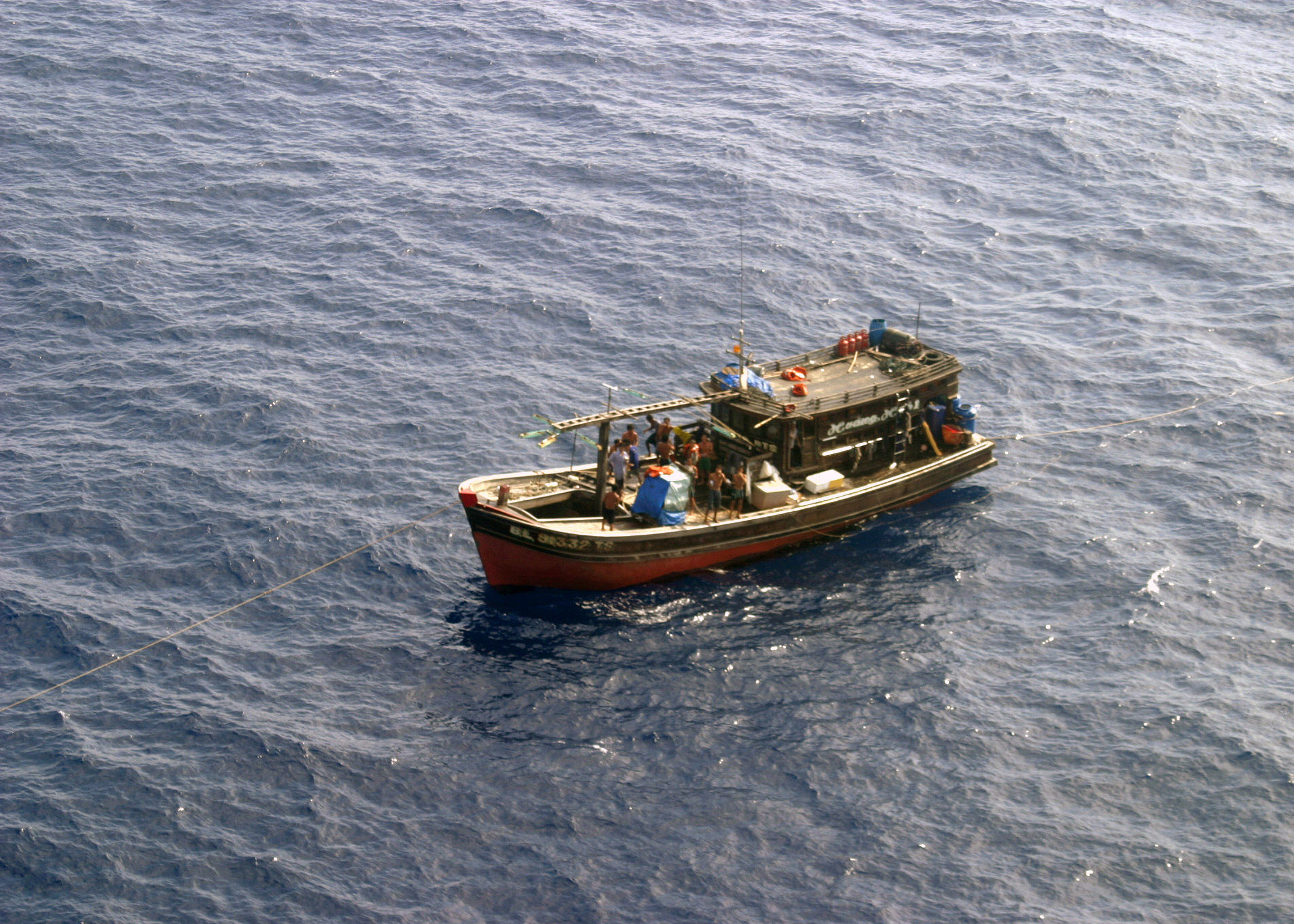 South China Sea (April 15, 2006) - During routine flight operations in the South China Sea, an SH-60B Seahawk helicopter assigned to the "Saberhawks" of Helicopter Anti Submarine Squadron Light (HSL-47) embarked aboard USS Abraham Lincoln (CVN 72) spotted a vessel in apparent distress. The crew of the SH-60B provided food and water for the crew of the distressed vessel. Lincoln and embarked Carrier Air Wing Two (CVW-2) are currently underway to the Western Pacific for a scheduled deployment. U.S. Navy photo by Intelligence Specialist 1st Class John Torres (RELEASED)